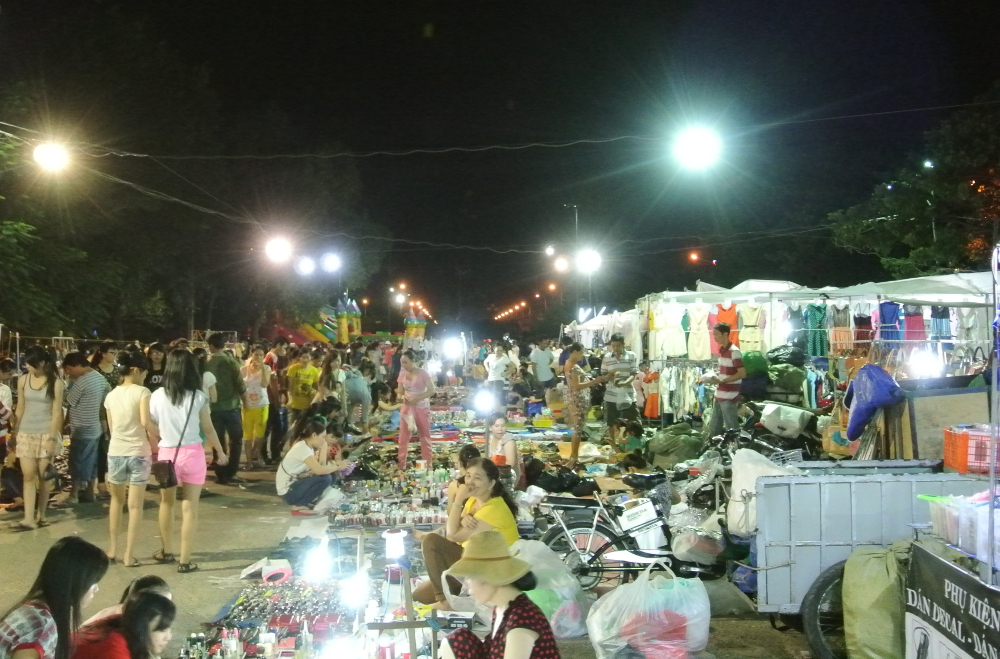 Night market in Qui Nhon Vietnam.